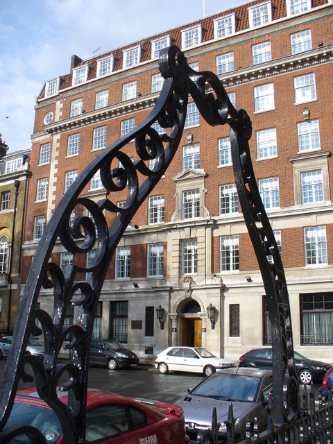 Norfolk House, St James's Square Eisenhower and other Allied commanders planned Operations Overlord and Torch here - invading occupied France in 1944.